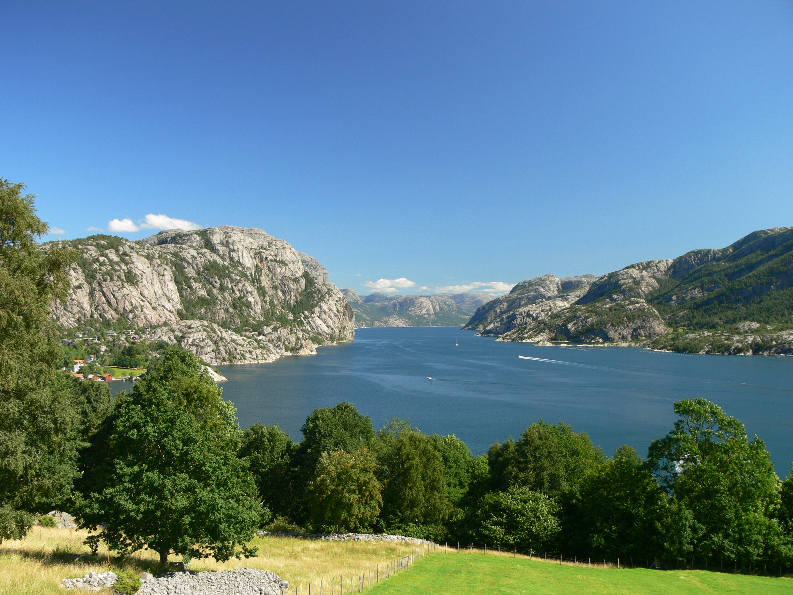 Lysefjord in Norway